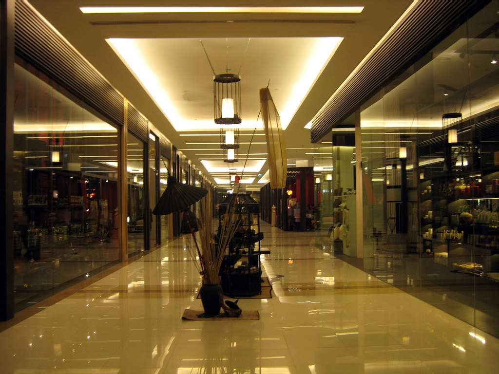 Siam Paragon.